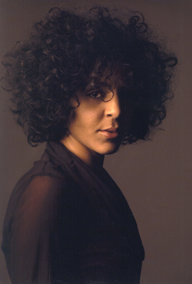 Dutch actress Kaltoum Boufangacha (Nieuwegein, 1975)